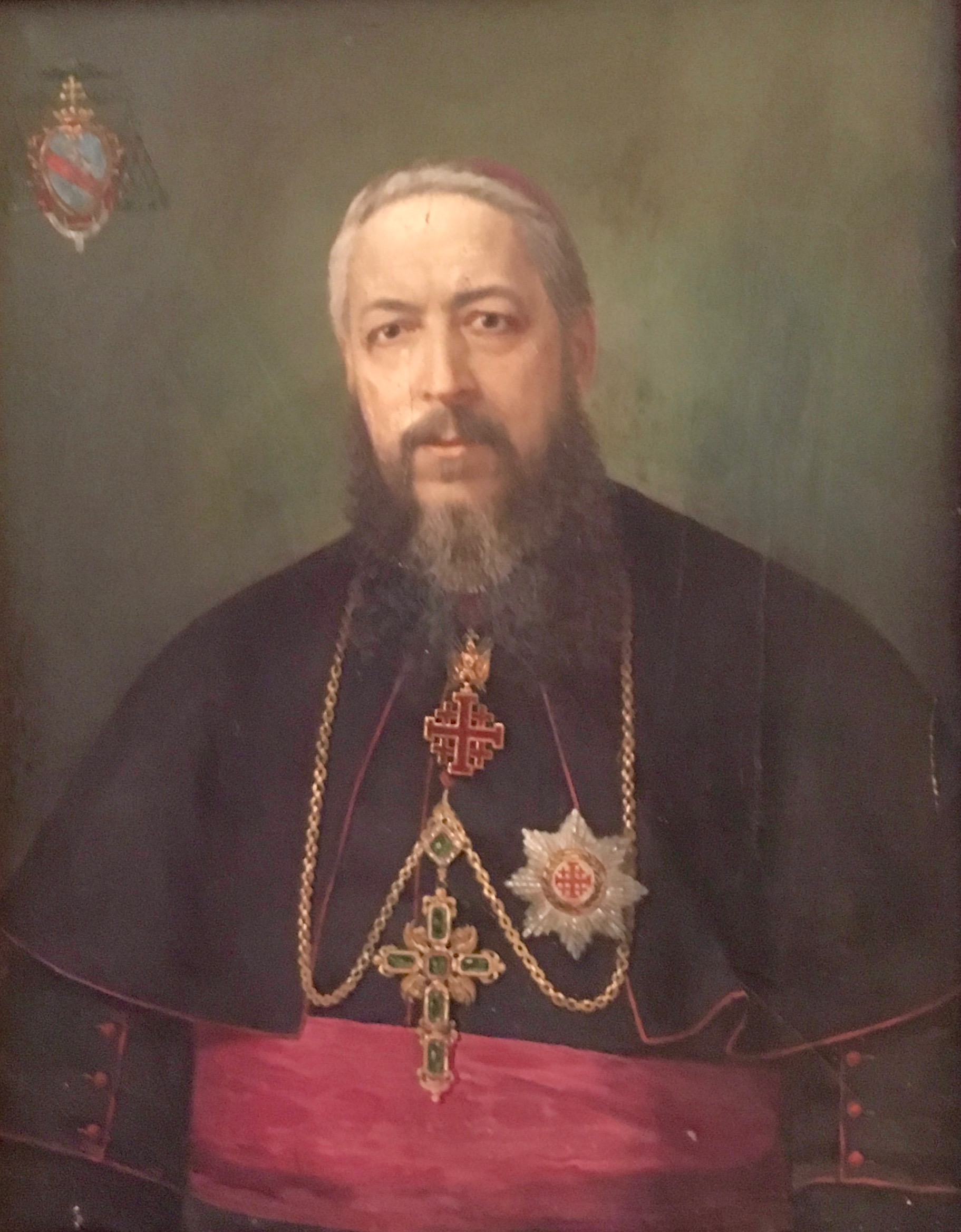 Portrait Filippo Camassei (Latin Patriarchate of Jerusalem)